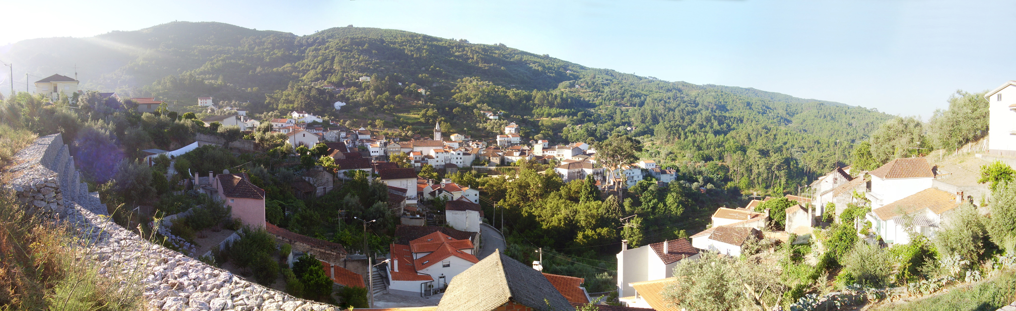 Panorama from São Gião